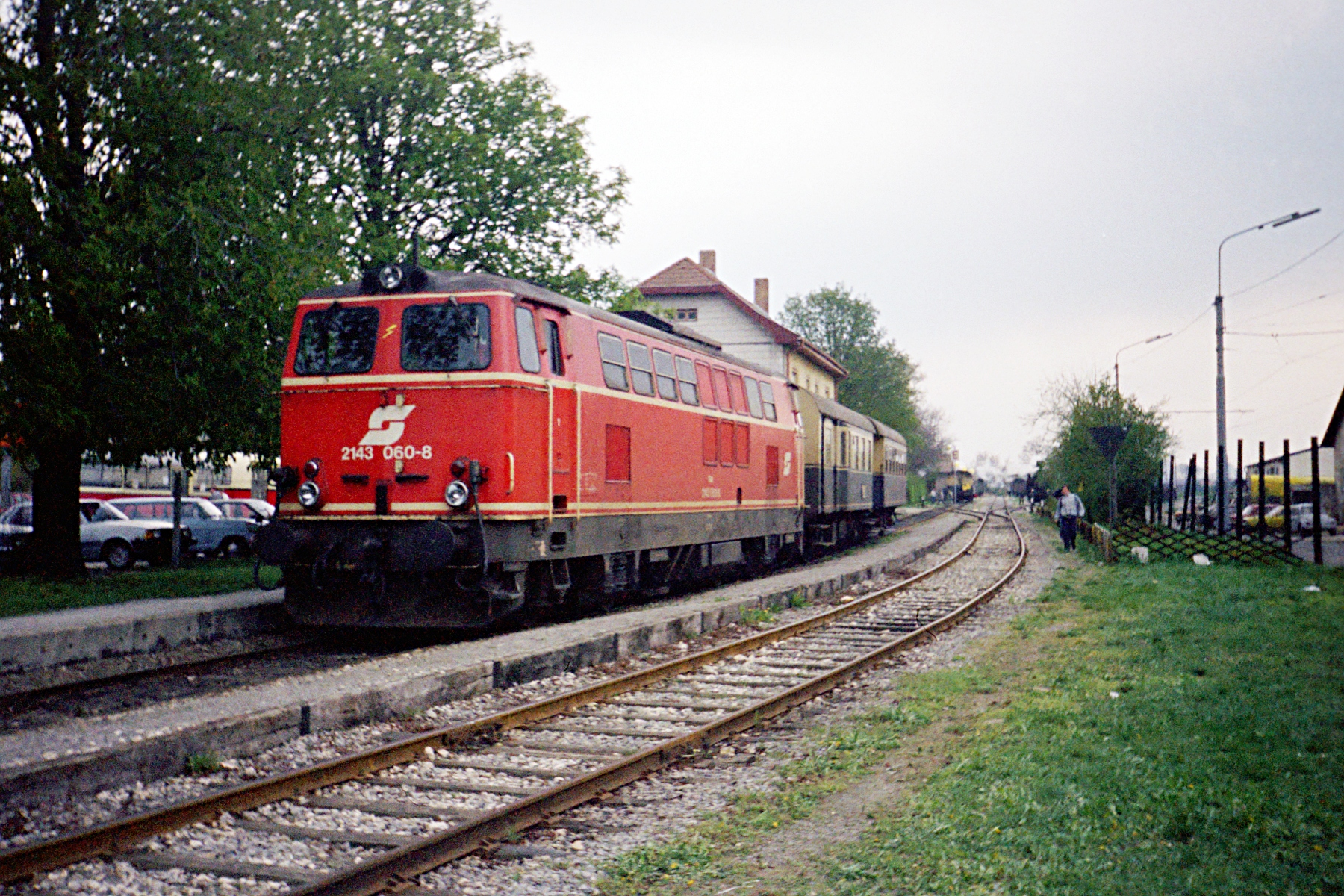 ÖBB 2143 with four-wheel cars in Stammersdorf railway station. Stammersdorf was the smallest terminus station in Vienna. A few weeks after this picture was taken, the line from Obersdorf to Stammersdorf was closed.